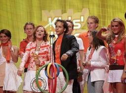 Zoop wins Nickelodeon Kid's Choice Award